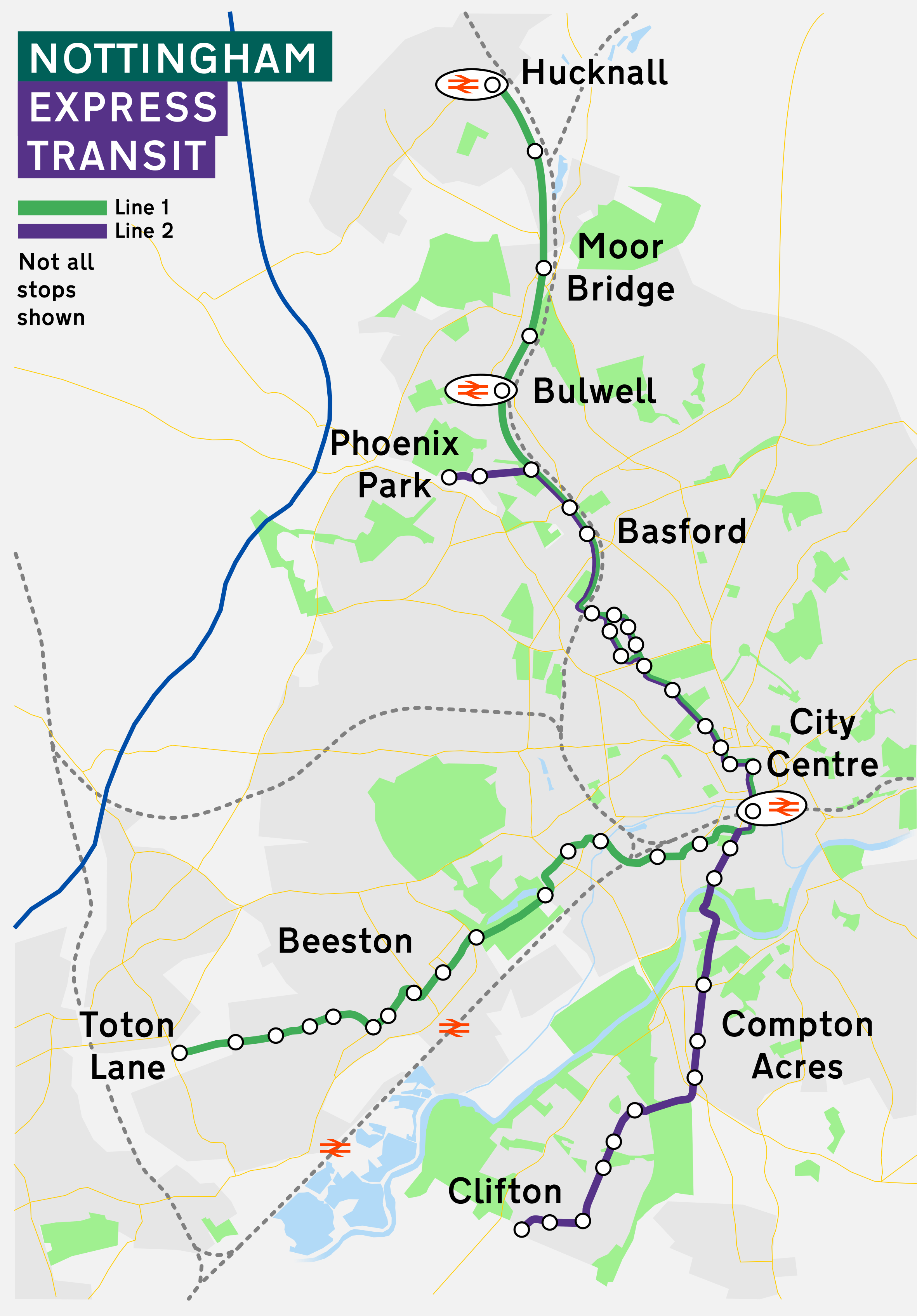 Map of Nottingham Express Transit tram network.